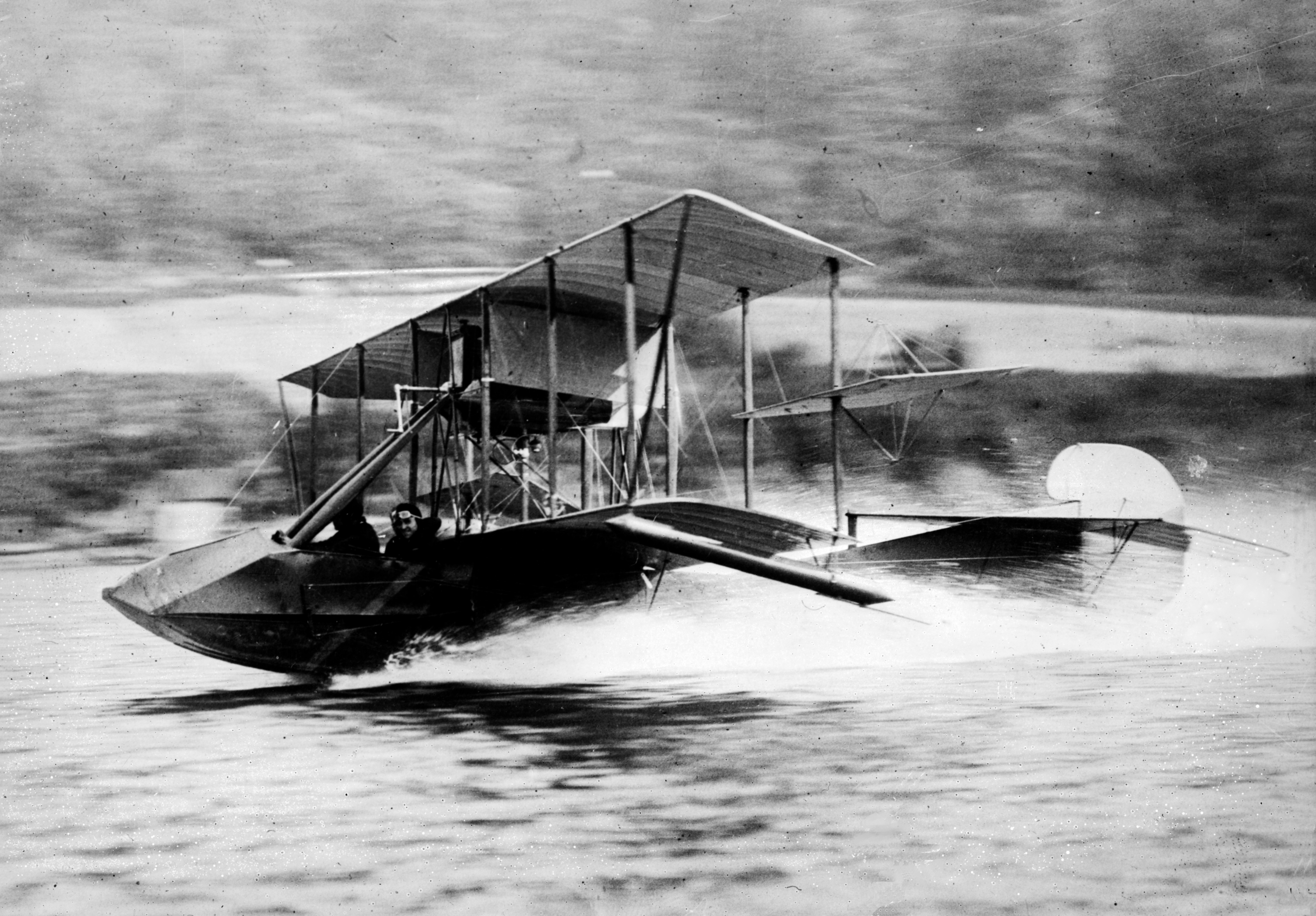 Aviation pioneer Gustave Maurice Heckscher in his Curtiss F seaplane at 60 miles per hour, circa 1912.